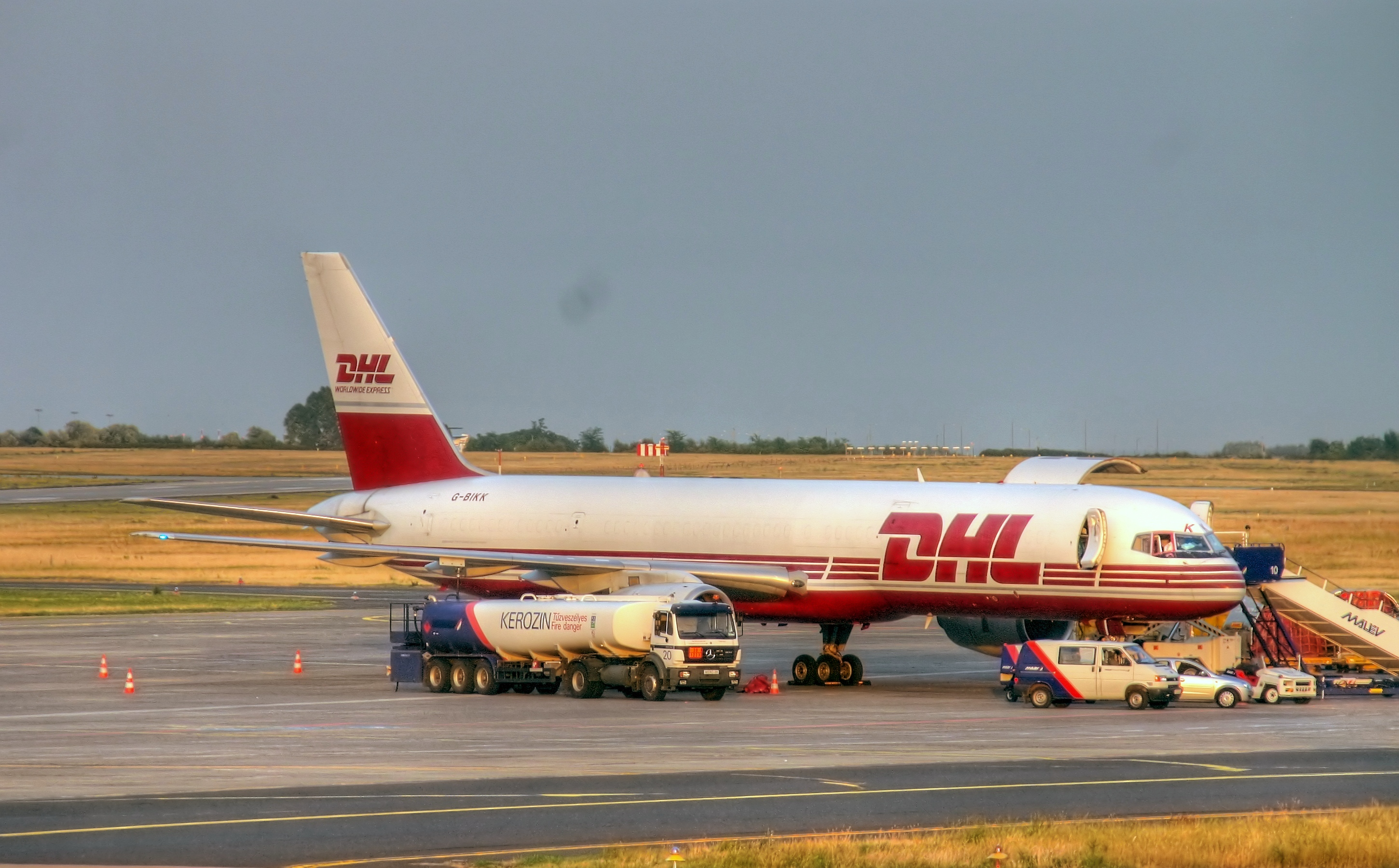 DHL Air UK - G-BIKK - Boeing 757-200 - Airport Budapest